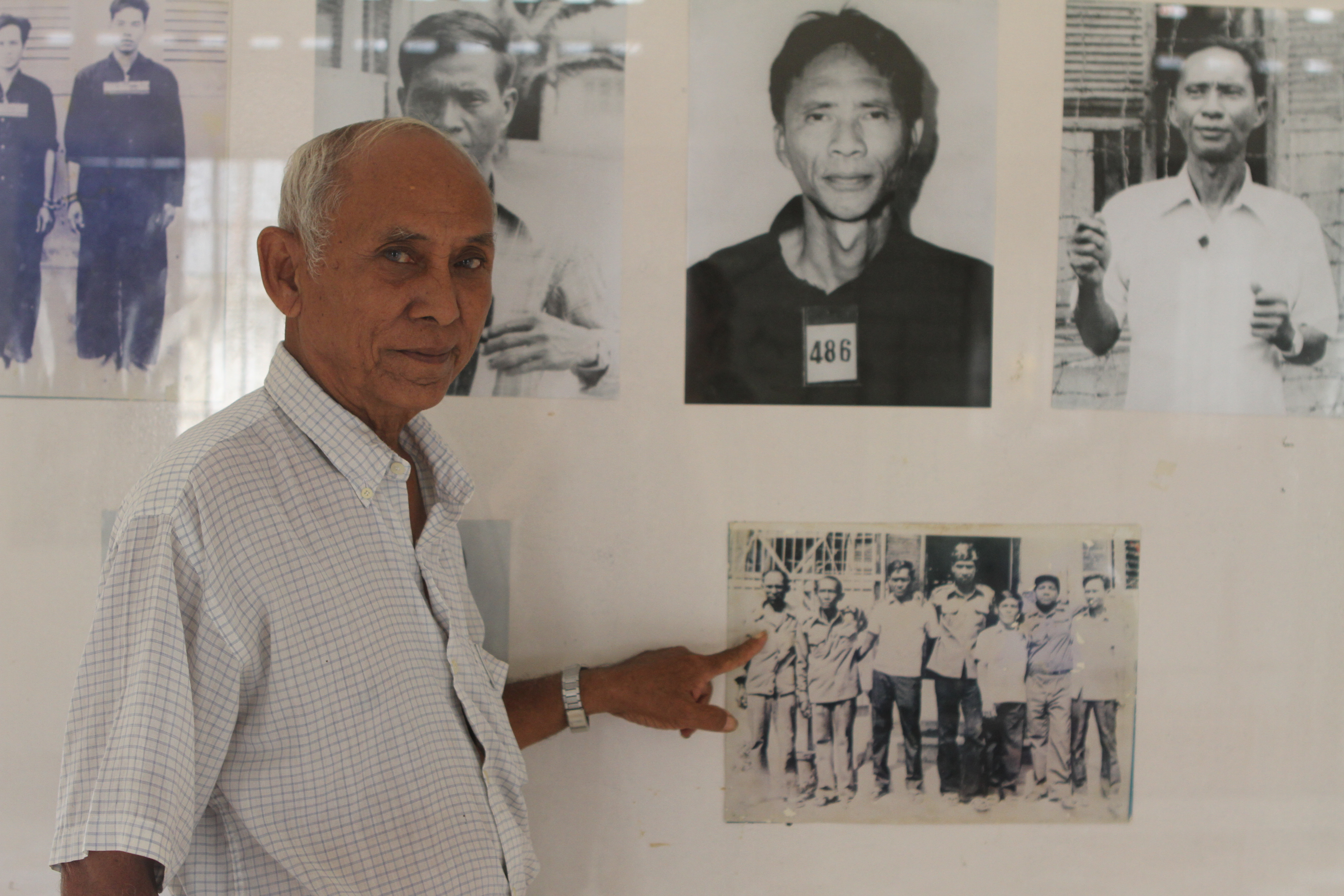 Mr. Chum Mey, one of the survivors from the Tuon Sleng prison in Phnom Penh